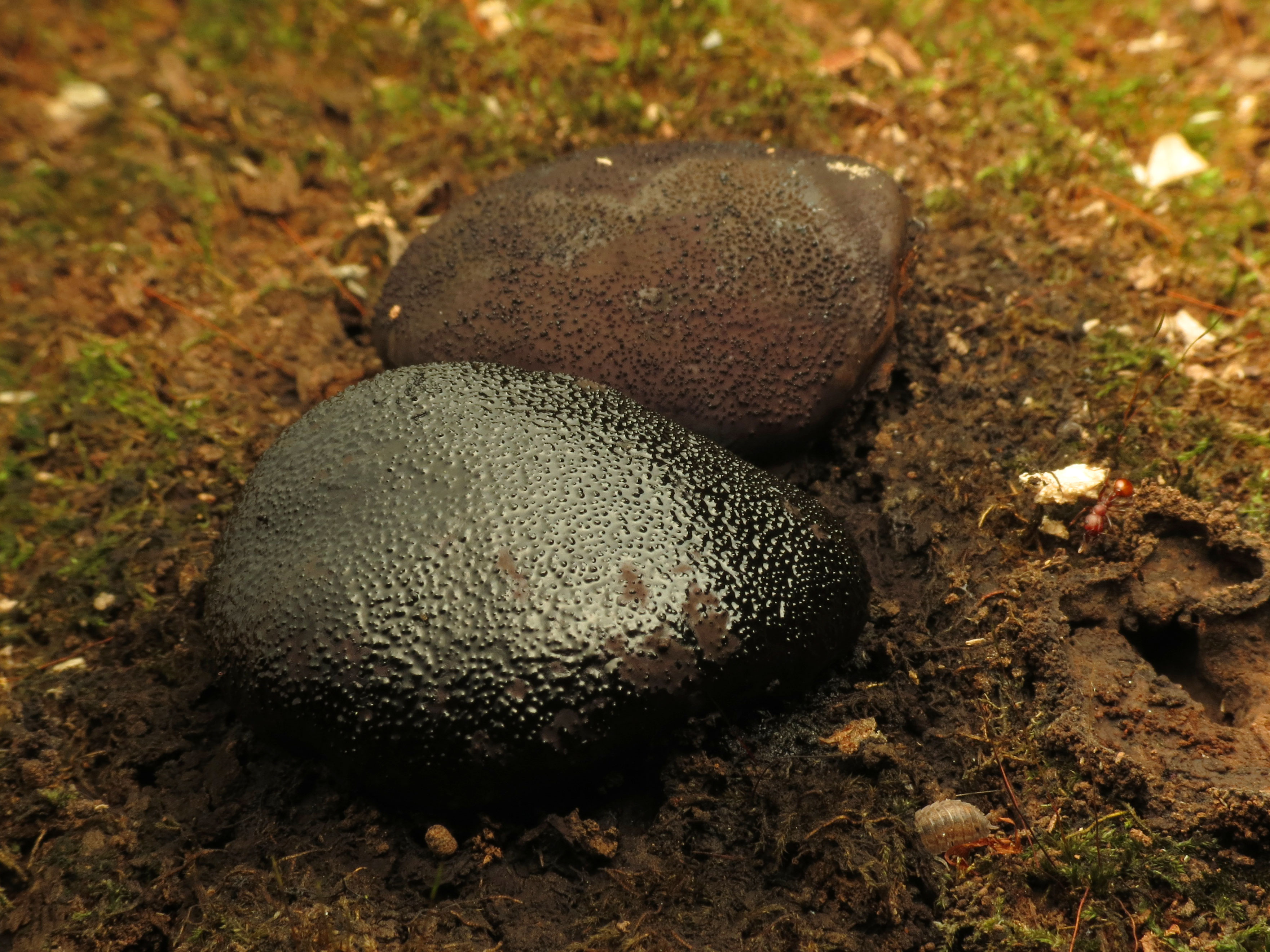 Camarops petersii growing on a decomposing log. Rock Creek Park, Washington, DC, USA